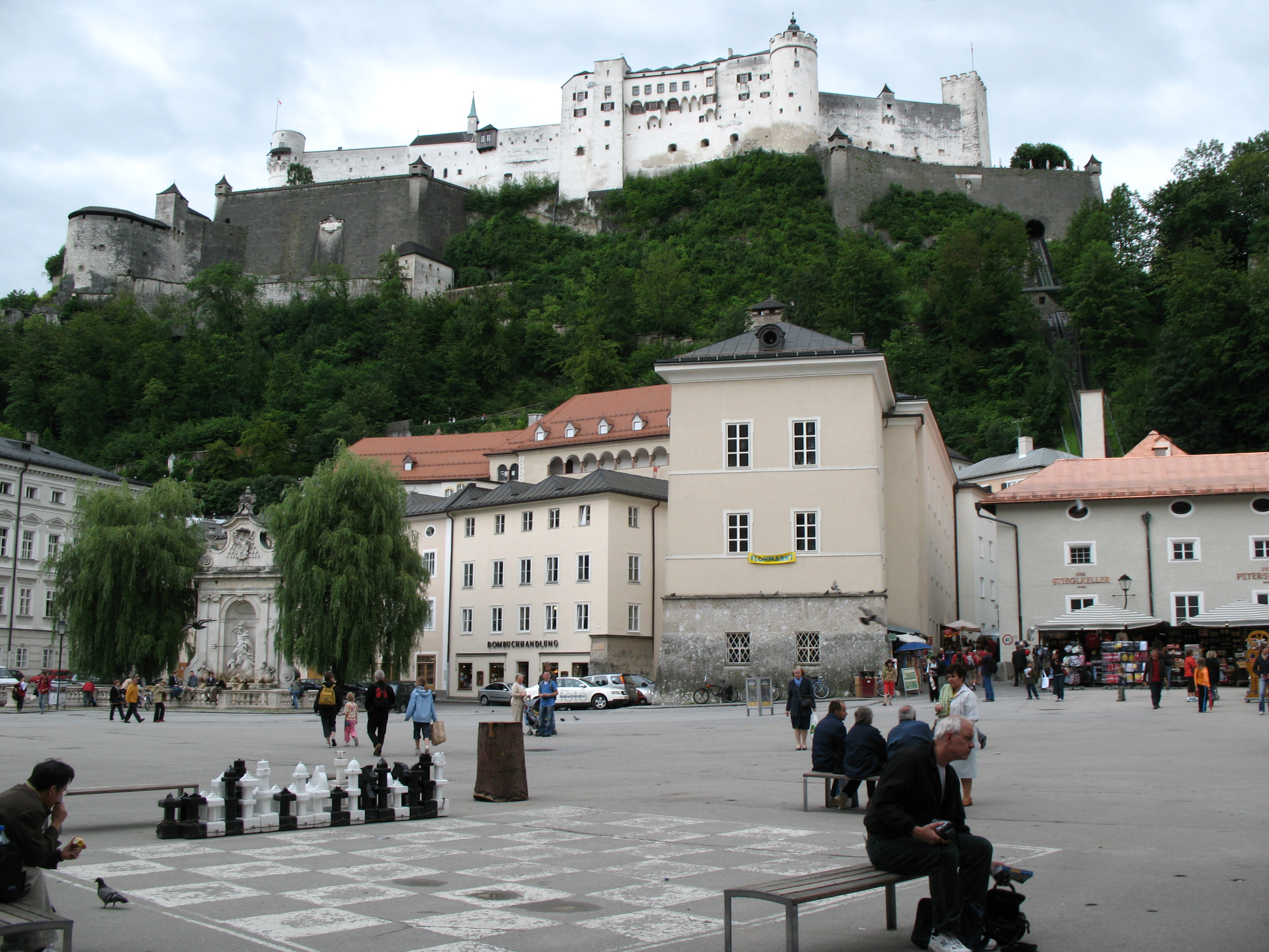 High Fortress over Capital Plaza, Salzburg, Austria